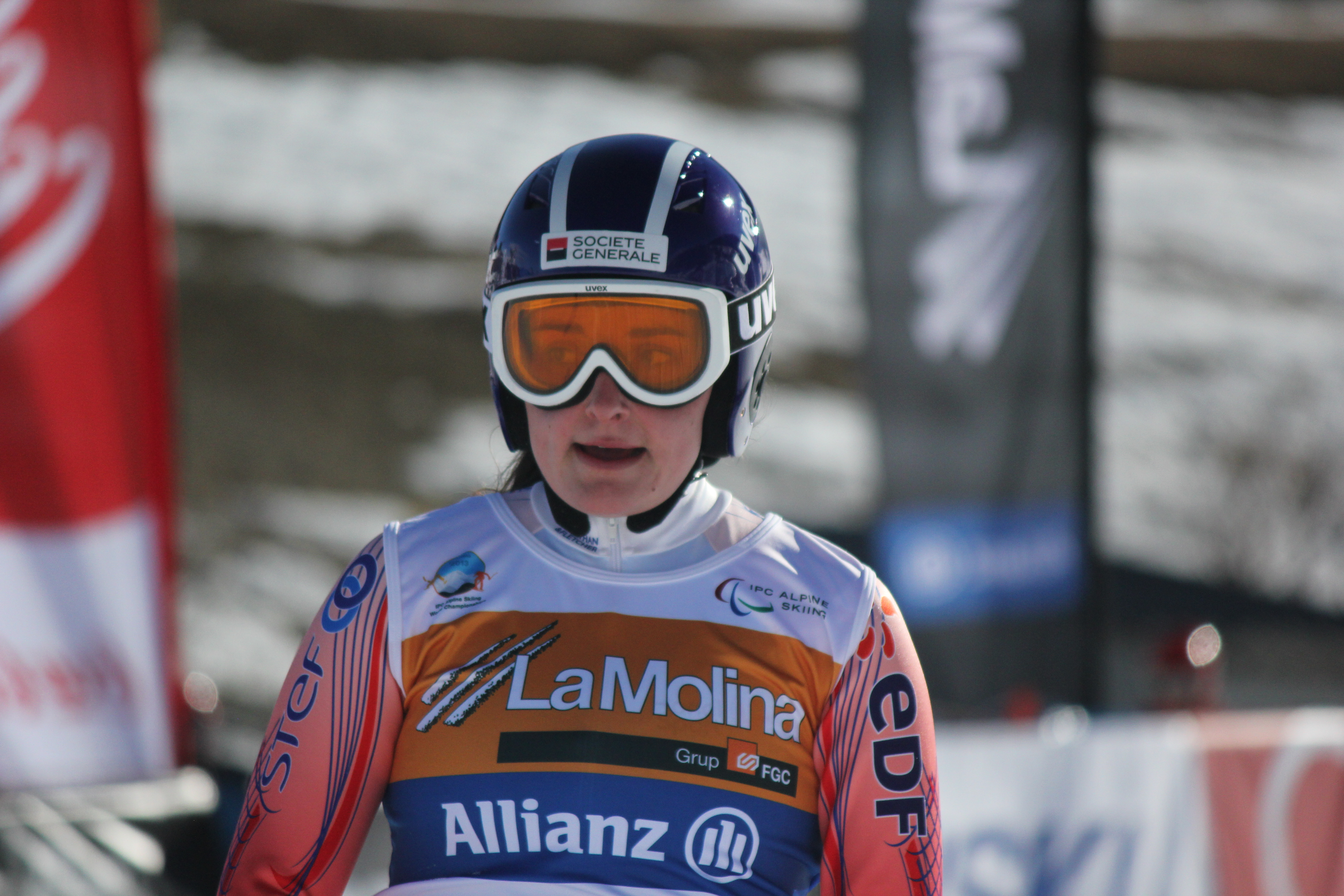 IPC Alpine World Championships in La Molina, Spain. Super-G event on Thursday. Women's siitng skier Petra Kozickova of Slovakia.